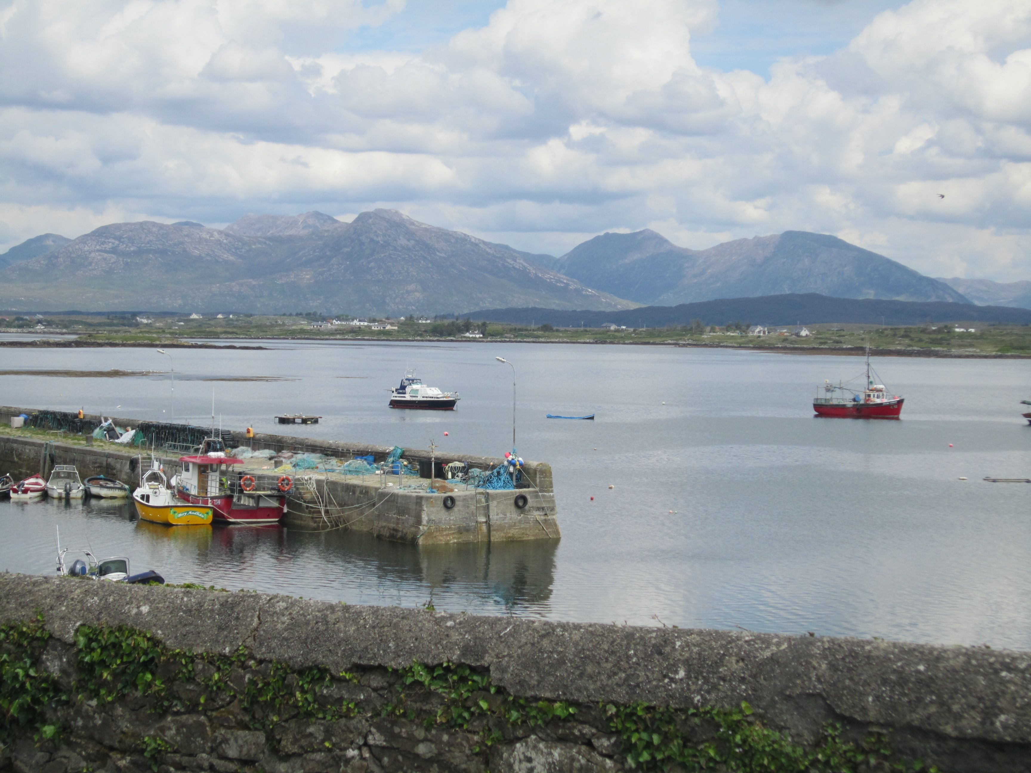 Boats and mountains, Roundstone